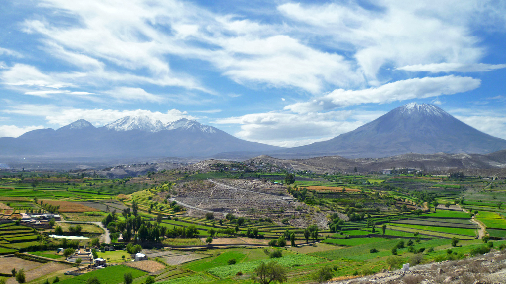 View of the Chachani (left) and Misti (right), both volcanoes belonging to the Volcanic Cordillera of Peru.